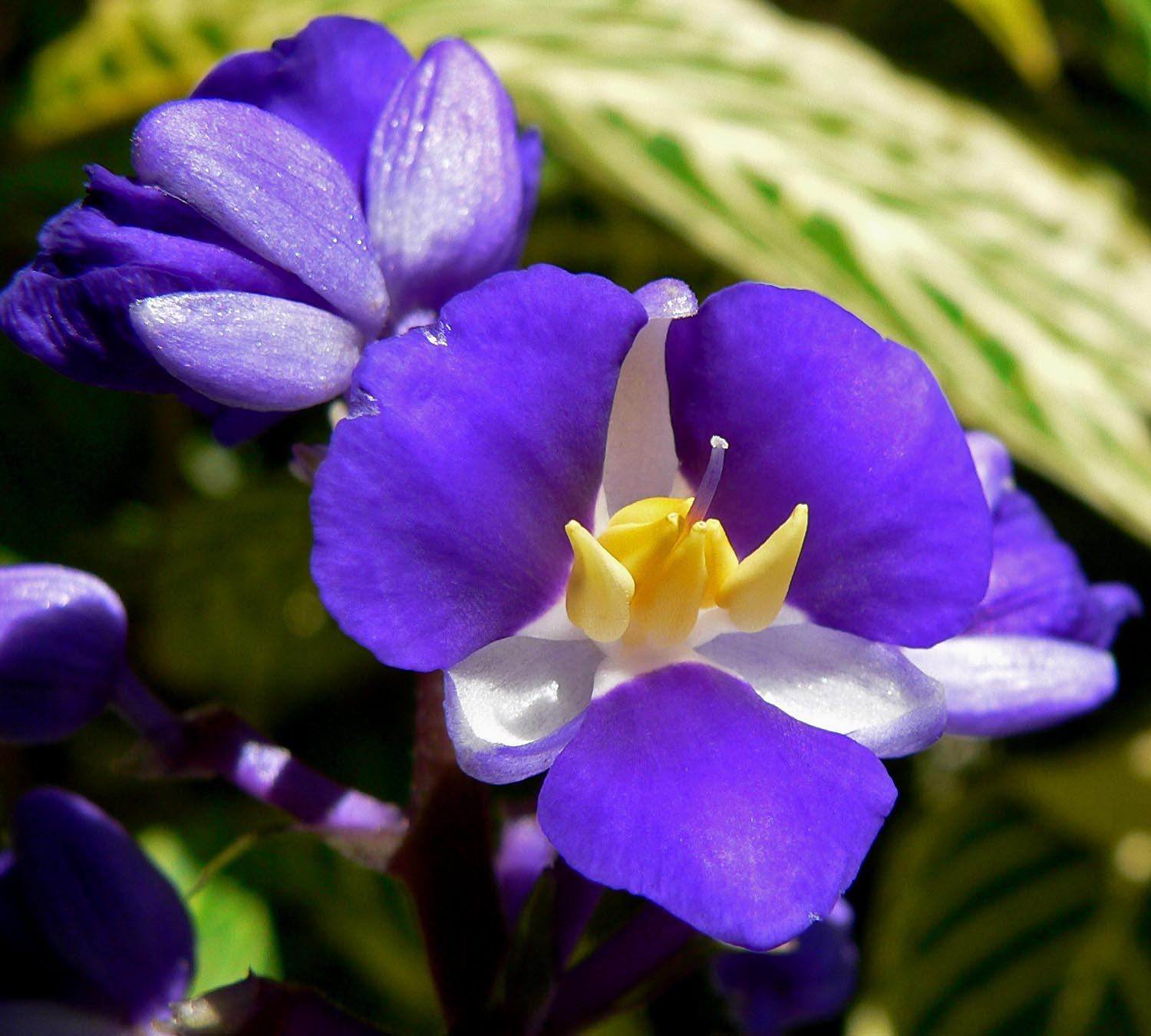 Photo of Dichorisandra thyrsiflora at Balboa Park